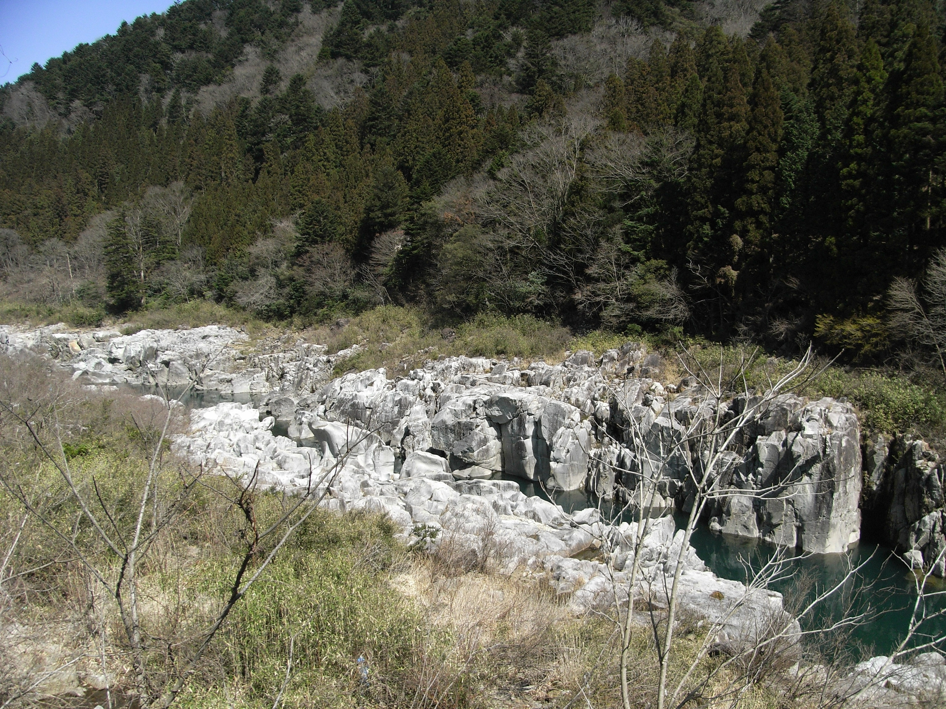 Nakayama-shichiri valley (Gifu Pref./Japan)